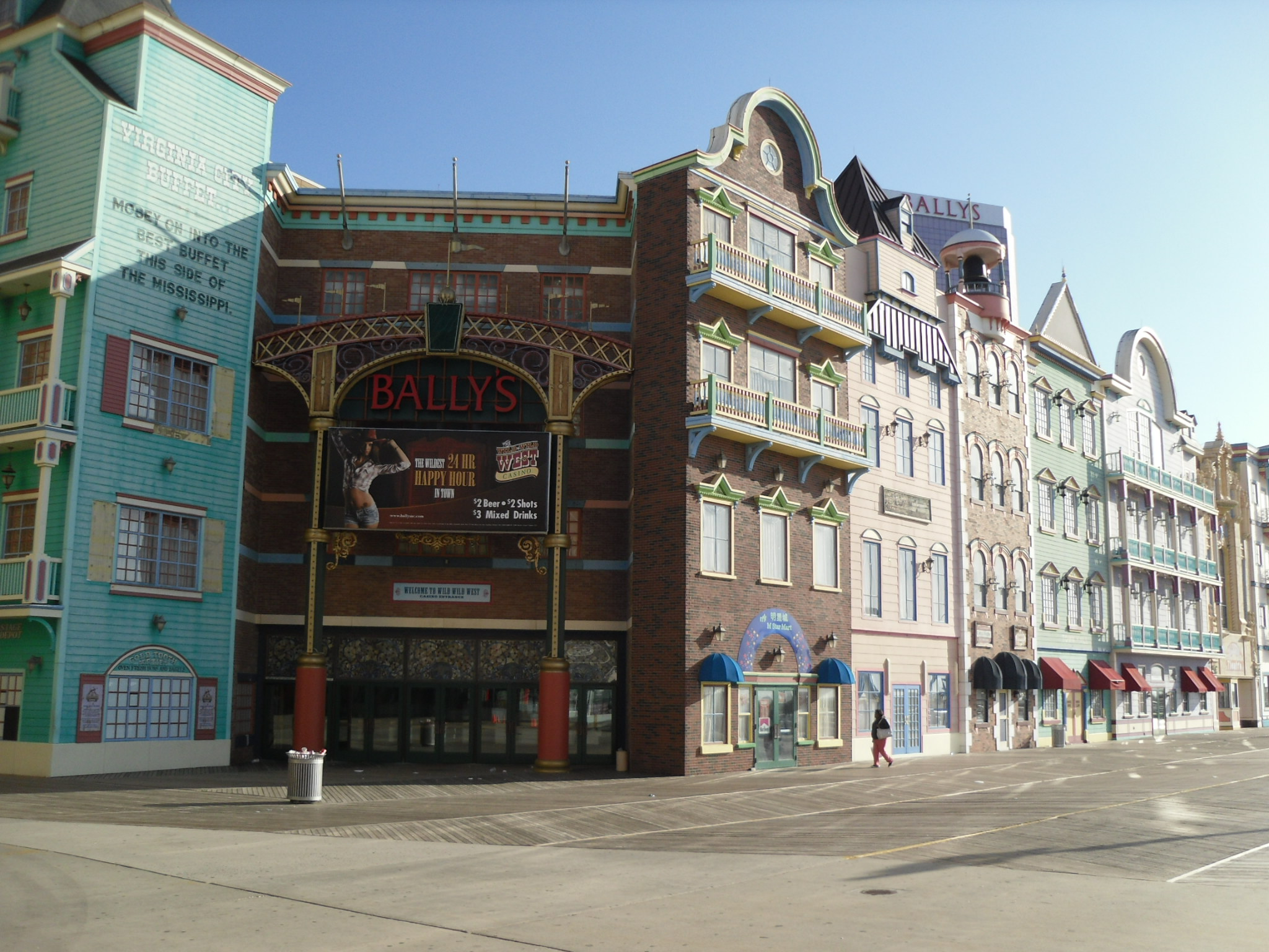 The Wild Wild West Casino in Atlantic City